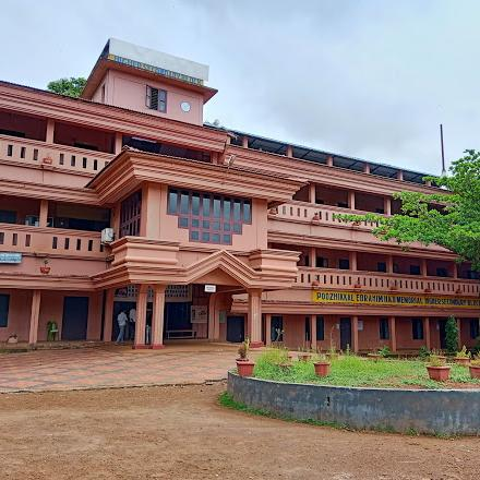 It is one of the best schools in Kerala